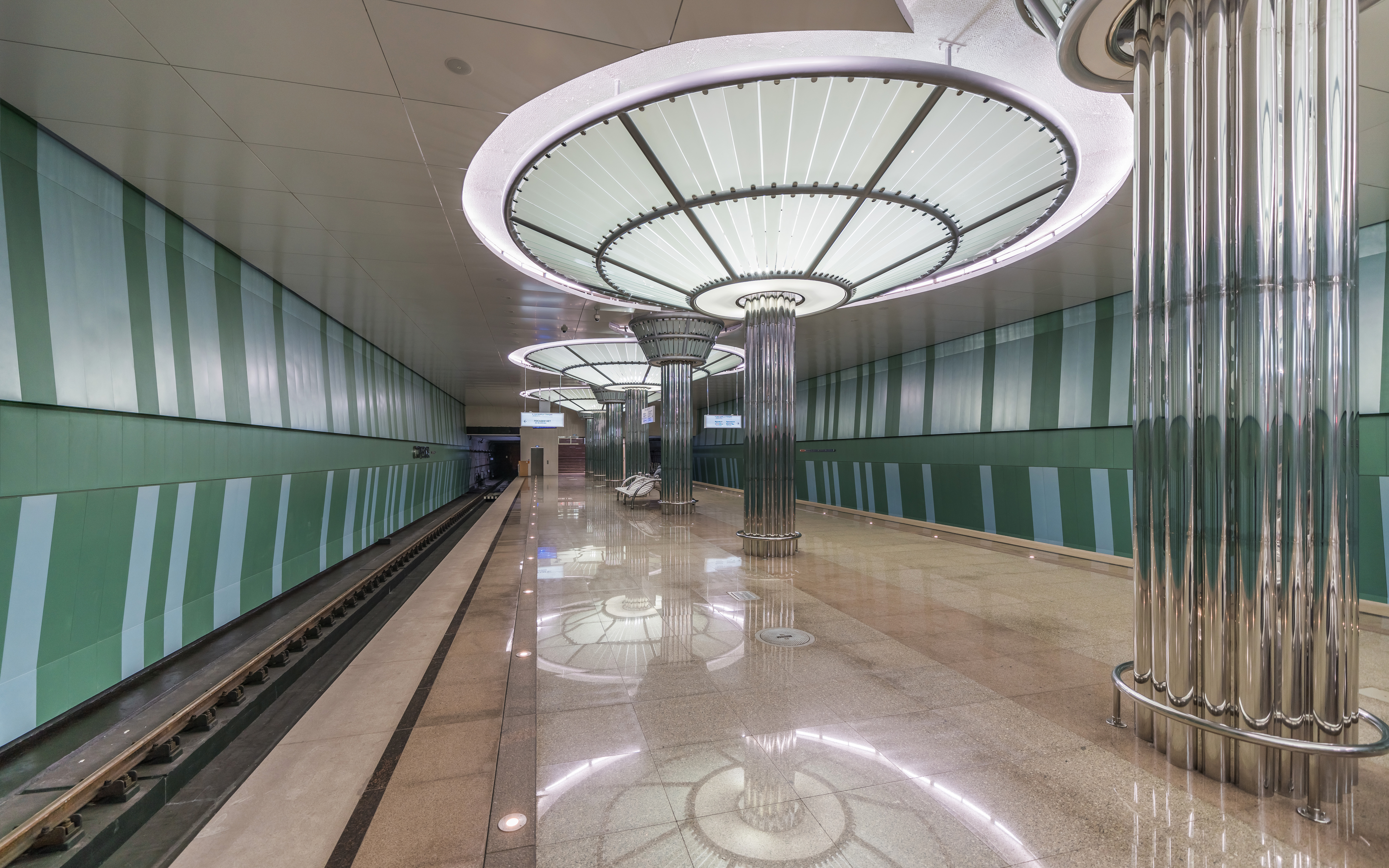 Strelka metro station in Nizhny Novgorod, Russia